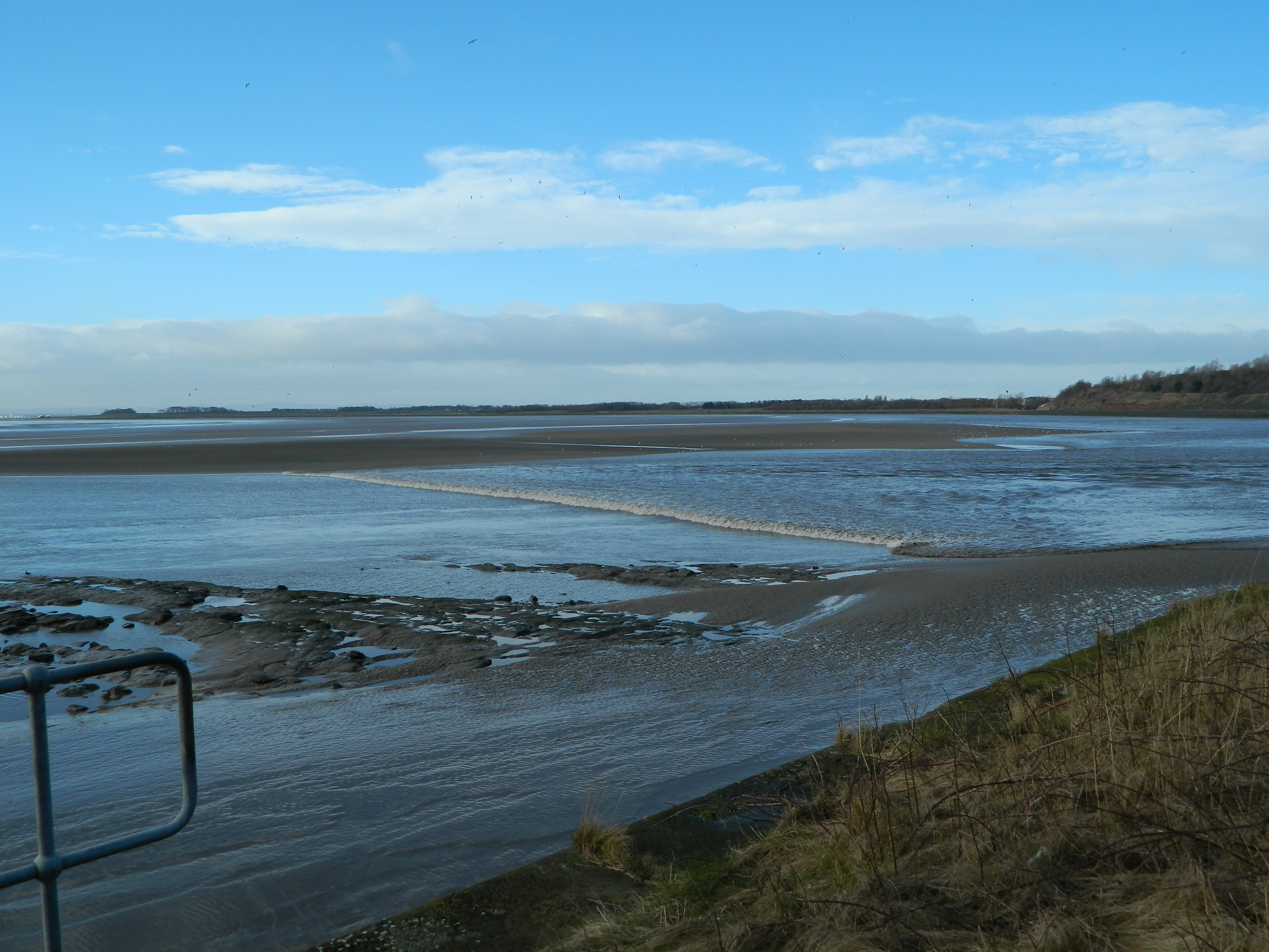 Tidal bore on the River Mersey, looking downstream from the north (Widnes) bank, just west of the Runcorn bridge